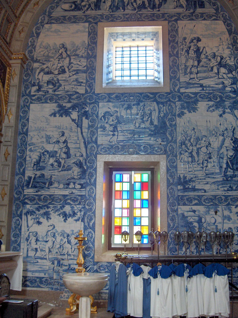 Transept in the Church of Nossa Senhora da Nazaré — in Nazaré, Leiria district, Portugal. With an Azulejo tiled wall, and abstract pattern stained glass windows.